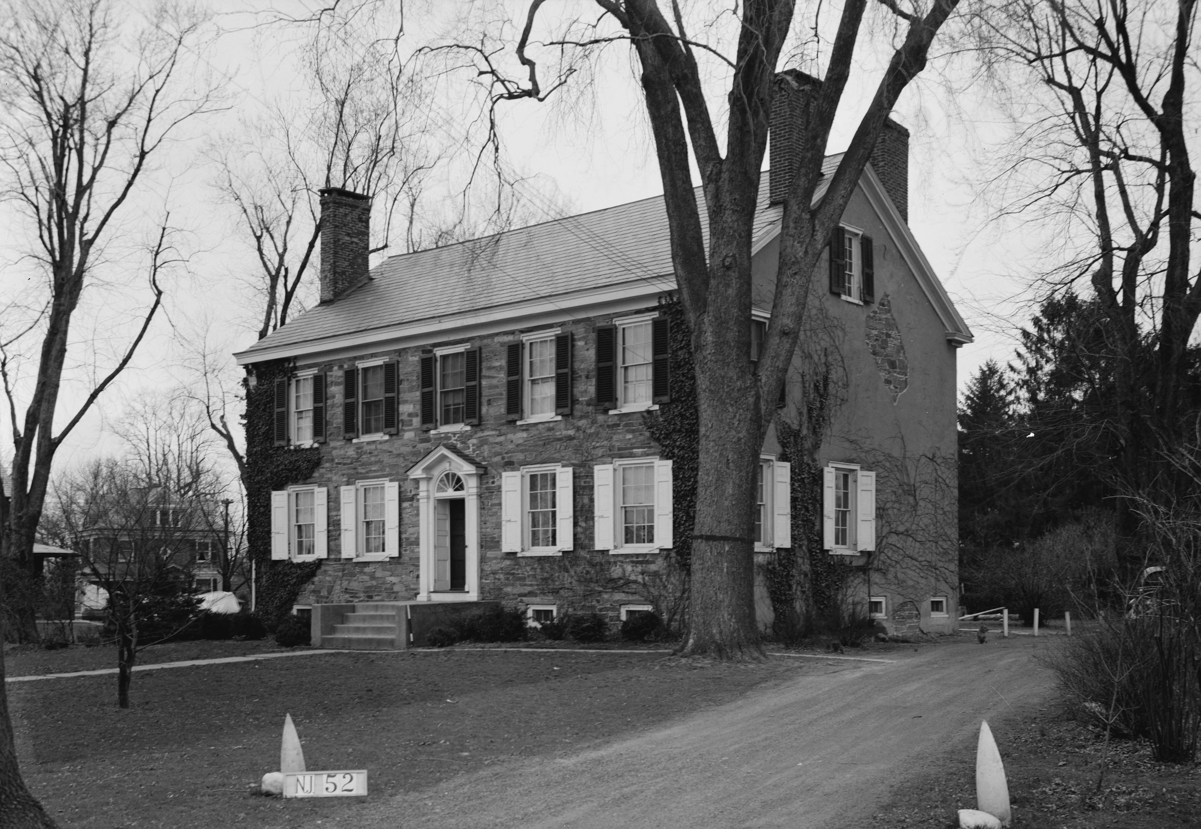 metadata from the Library of Congress: Title: Harmony Hall, Main Street, Lawrenceville, Mercer County, NJ Other Title: Green House Creator(s): Historic American Buildings Survey, creator Related Names: Green, Richard Montgomery Date Created/Published: Documentation compiled after 1933 Medium: Photo(s): 3 Measured Drawing(s): 13 Data Page(s): 3 Reproduction Number: --- Rights Advisory: No known restrictions on images made by the U.S. Government; images copied from other sources may be restricted. ( Call Number: HABS NJ,11-LAWR,1- Repository: Library of Congress Prints and Photographs Division Washington, D.C. 20540 USA Notes: Unprocessed Field note material exists for this structure: FN-122 Survey number: HABS NJ-52 Building/structure dates: 1815 Initial Construction Subjects: houses Place: New Jersey -- Mercer County -- Lawrenceville Latitude/Longitude: 40.29722, -74.73 Collections: Historic American Buildings Survey/Historic American Engineering Record/Historic American Landscapes Survey Part of: Historic American Buildings Survey (Library of Congress) Bookmark This Record